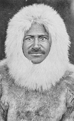 Matthew A. Henson immediately after the sledge journey to the Pole and back